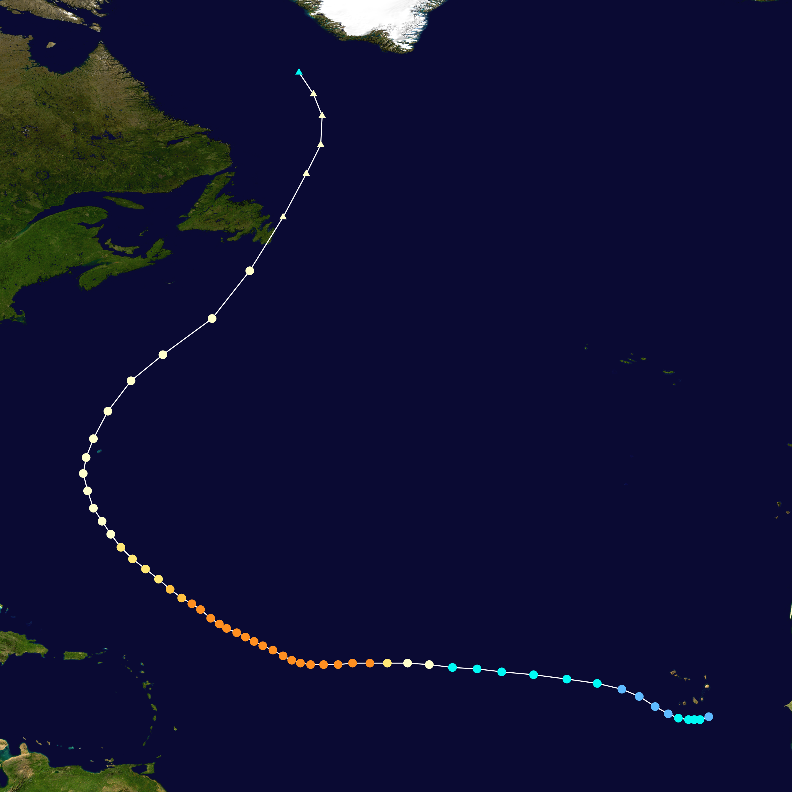 Track map of Hurricane Igor of the 2010 Atlantic hurricane season. The points show the location of the storm at 6-hour intervals. The colour represents the storm's maximum sustained wind speeds as classified in the Saffir–Simpson scale (see below), and the shape of the data points represent the nature of the storm, according to the legend below. Saffir–Simpson scale Tropical depression≤38 mph≤62 km/h Category 3111–129 mph178–208 km/h Tropical storm39–73 mph63–118 km/h Category 4130–156 mph209–251 km/h Category 174–95 mph119–153 km/h Category 5≥157 mph≥252 km/h Category 296–110 mph154–177 km/h Unknown Storm type Tropical cyclone Subtropical cyclone Extratropical cyclone / Remnant low / Tropical disturbance / Monsoon depression